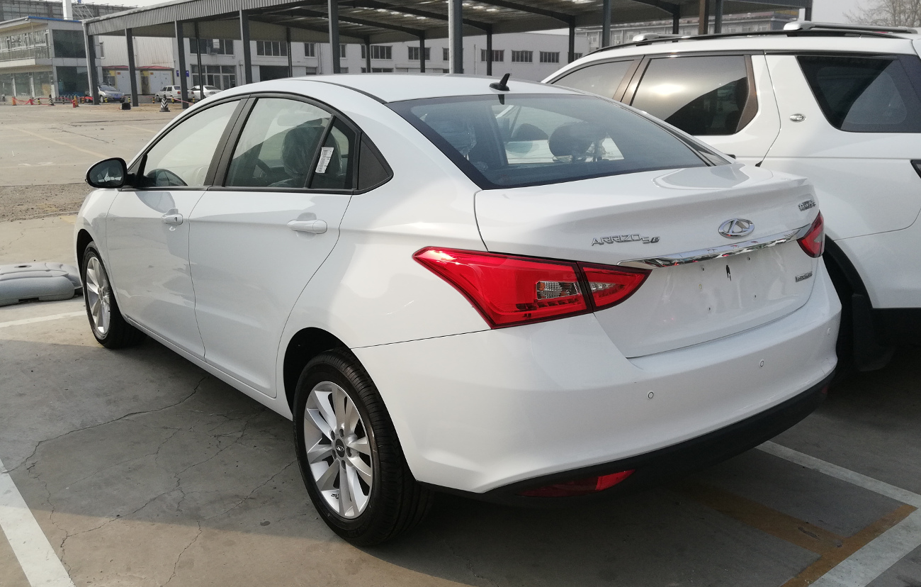 Chery Arrizo 5e photographed in Beijing, China.